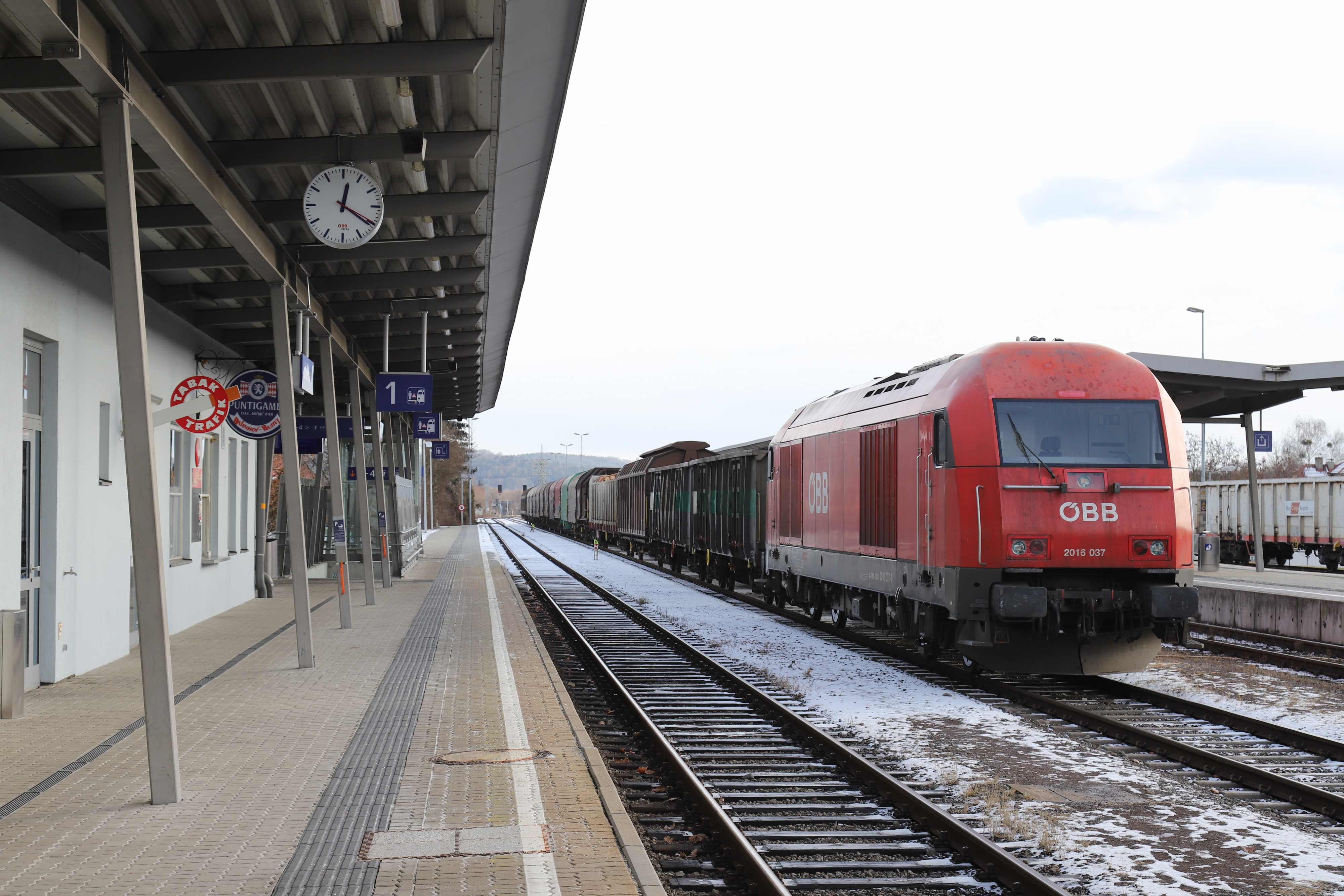 2016 037 with a goods train at Gleisdorf station